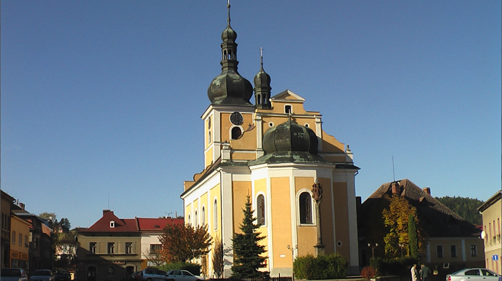 Church of St. Jakub Větší in Úpice.